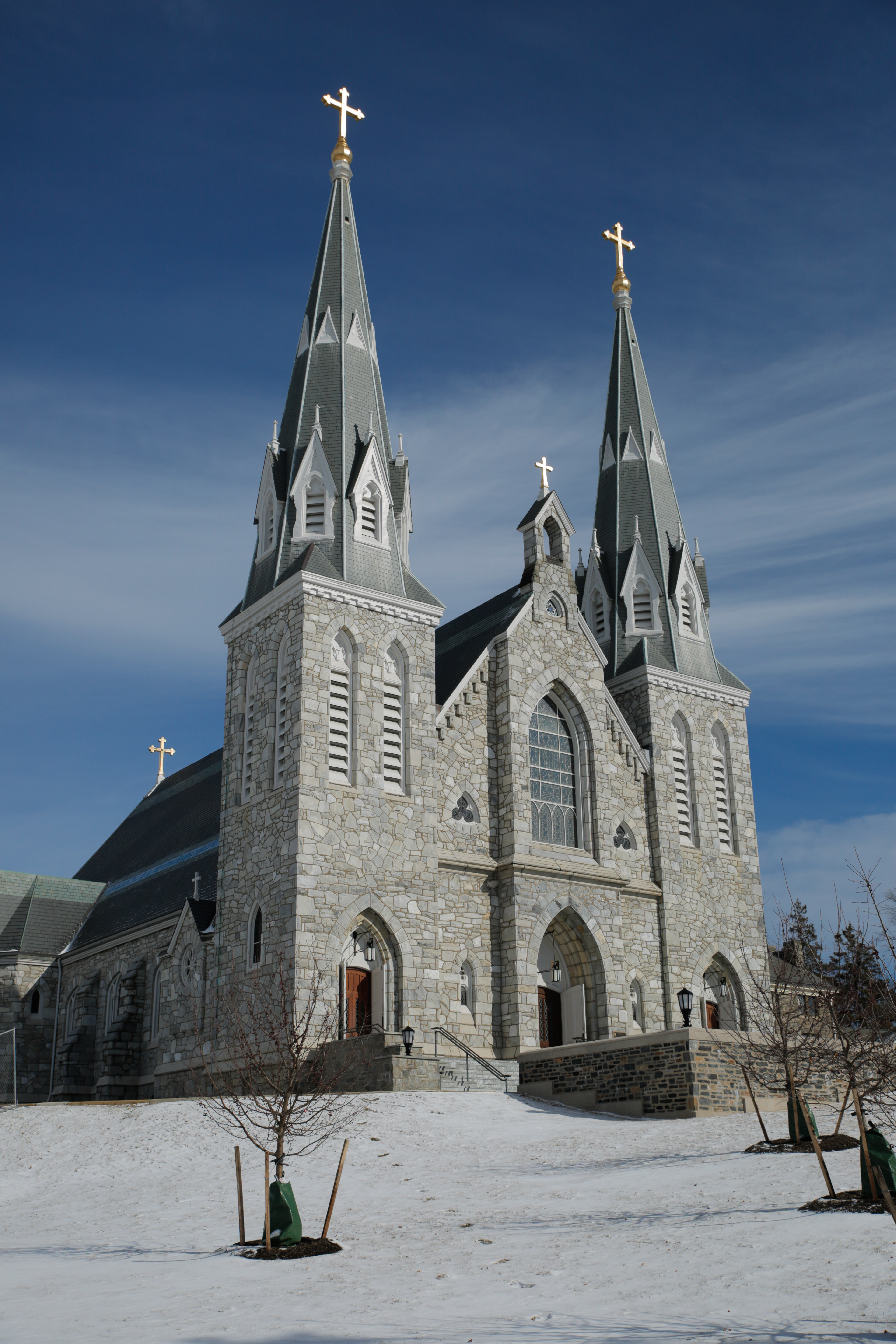 Saint Thomas of Villanova Church in January of 2018. Photo by Maggie Mengel, AKSM photography.